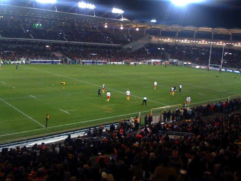 Echauffement des catalans - from Brightkite